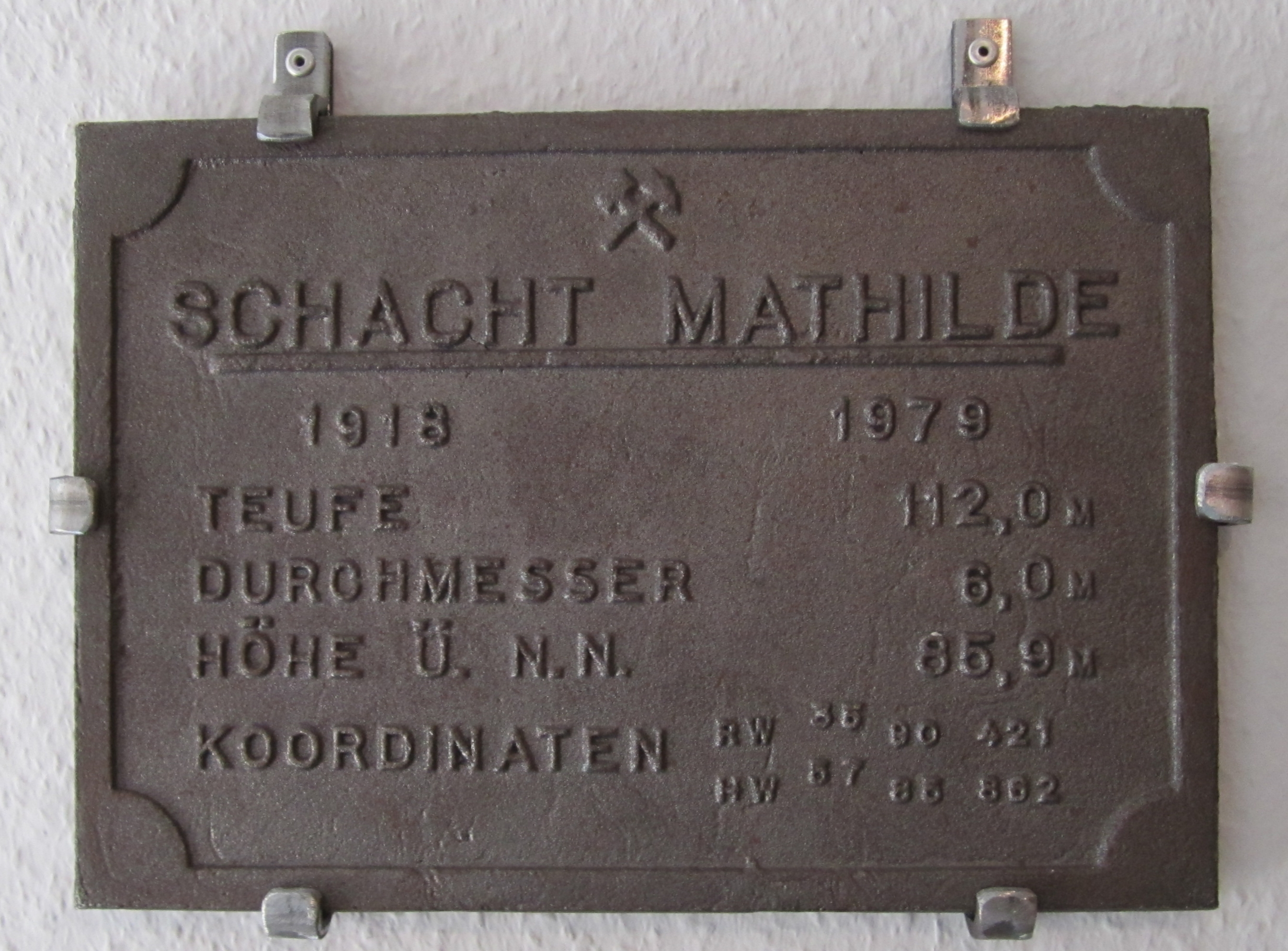 Plate with latitude, longitude (Gauß-Krüger, Potsdam date) and elevation above sea level from Shaft Mathilde, Lengede-Broistedt Iron-Ore Mine, Lower Saxony, Germany